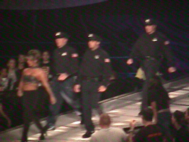 Marianna making her entrance during an episode of WWF Heat on October 10, 1999.